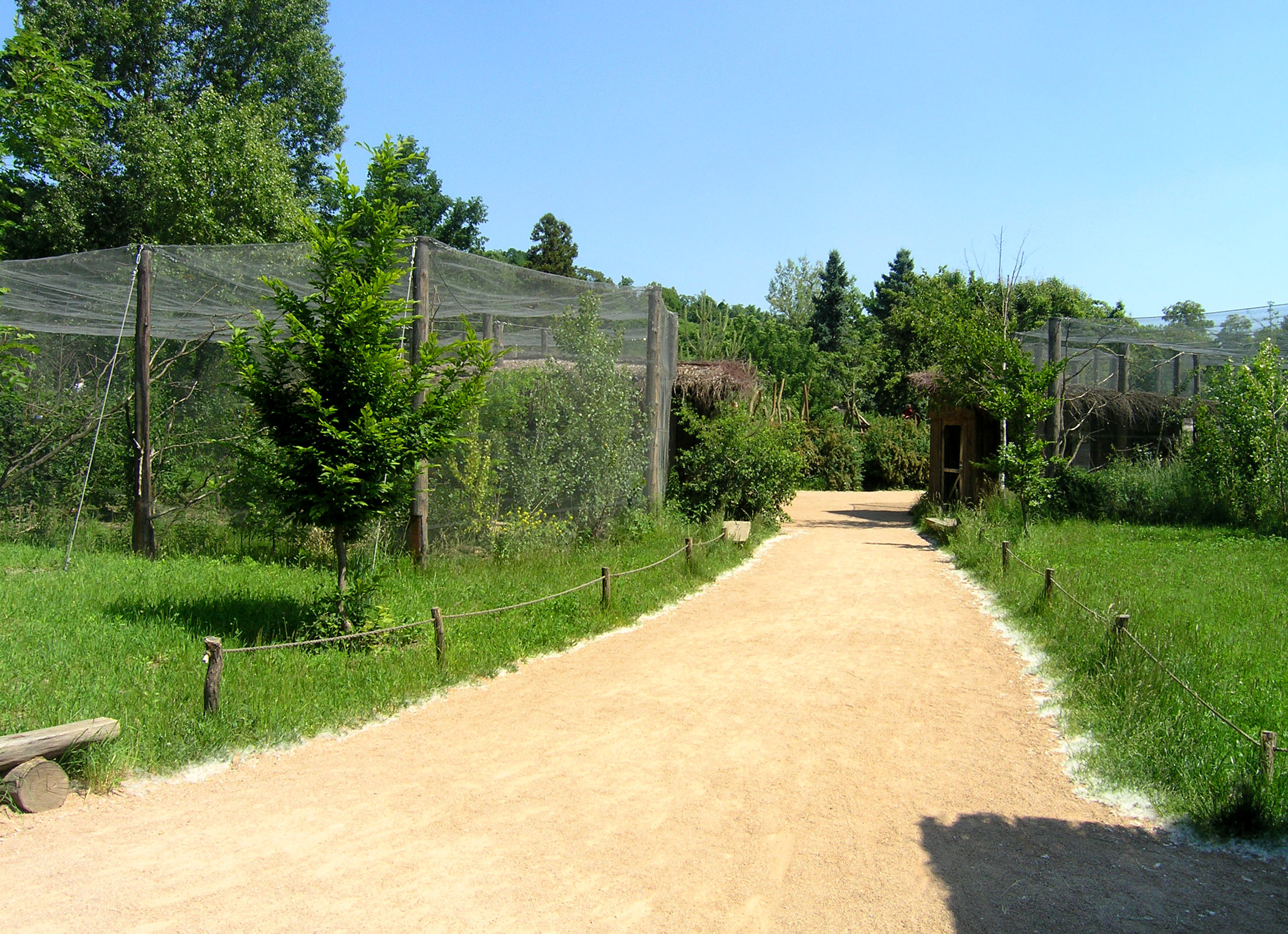 Czech country exposition in Prague zoo